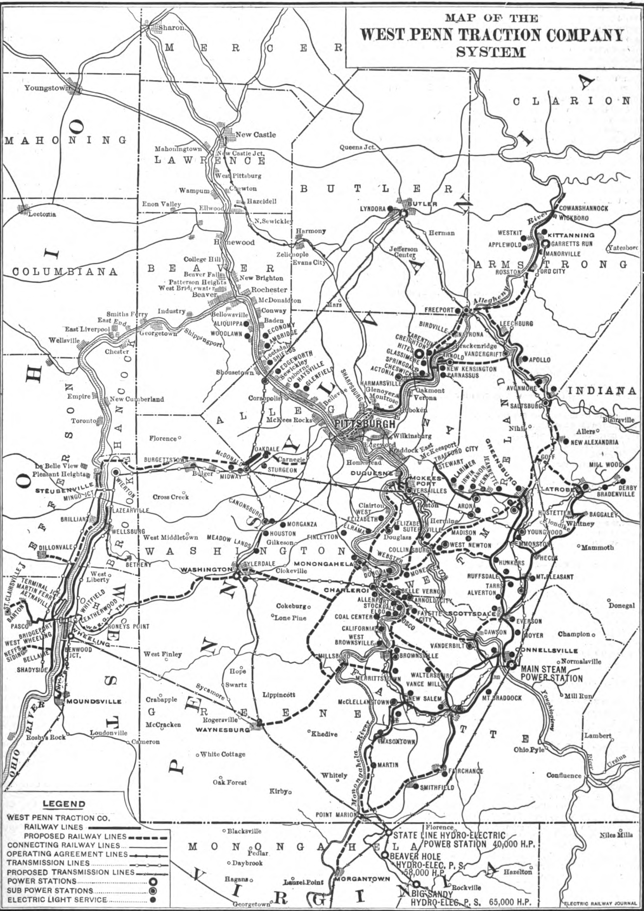 West Penn Traction Map (West Penn Traction and Water Power Company), Pennsylvania and West Virginia.